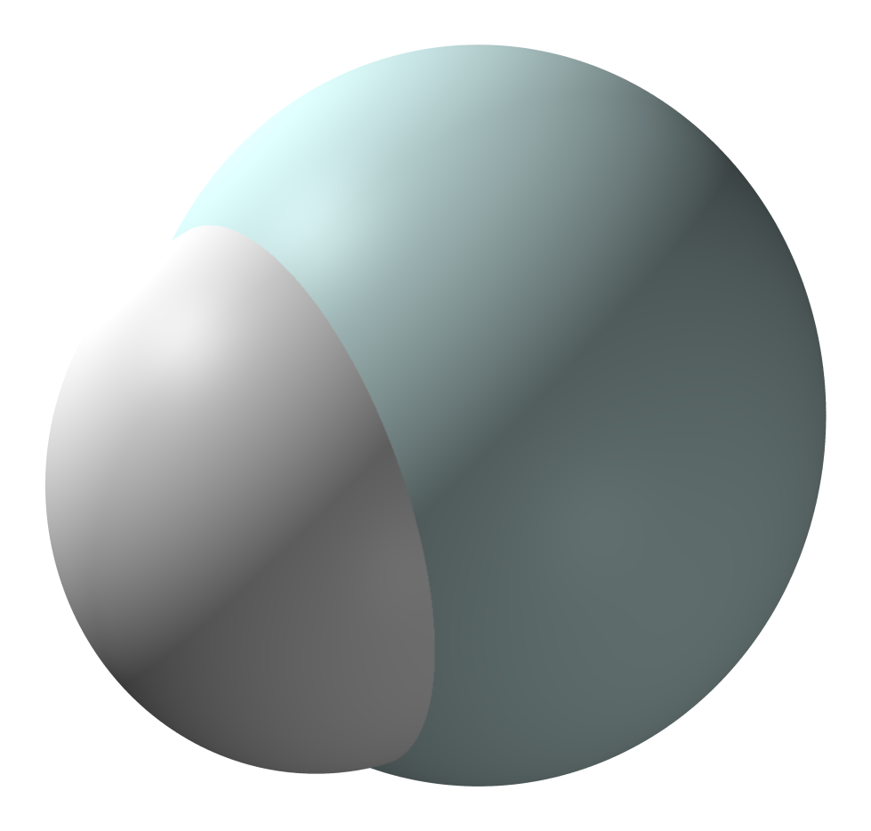 Space-filling model of the helium hydride cation, HeH+. Structural data from J. Mol. Model., 2009, 15, 35-40.